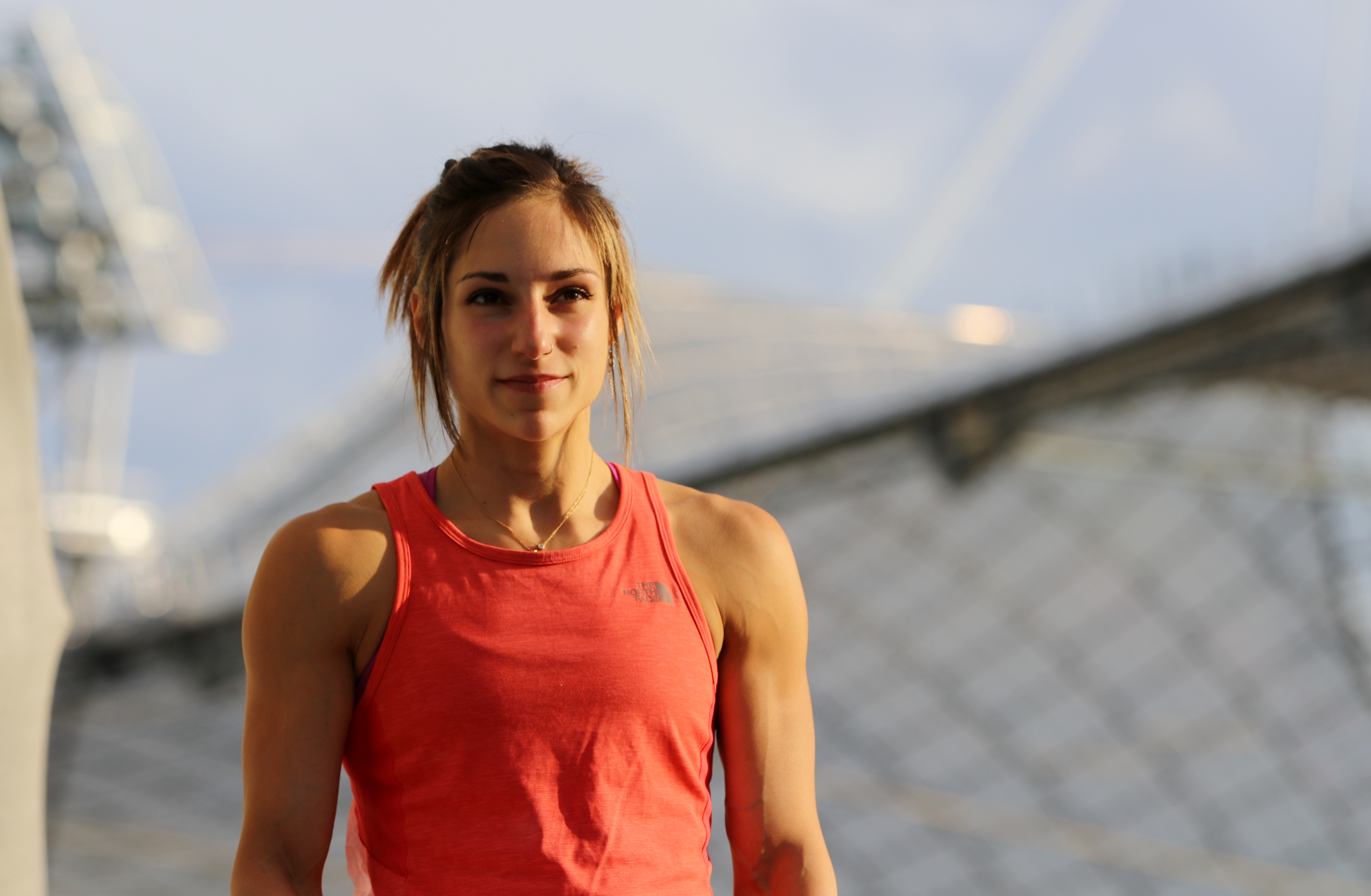 Alex Puccio, sports climber from the USA, at the Boulder Worldcup 2017 in Munich, Germany